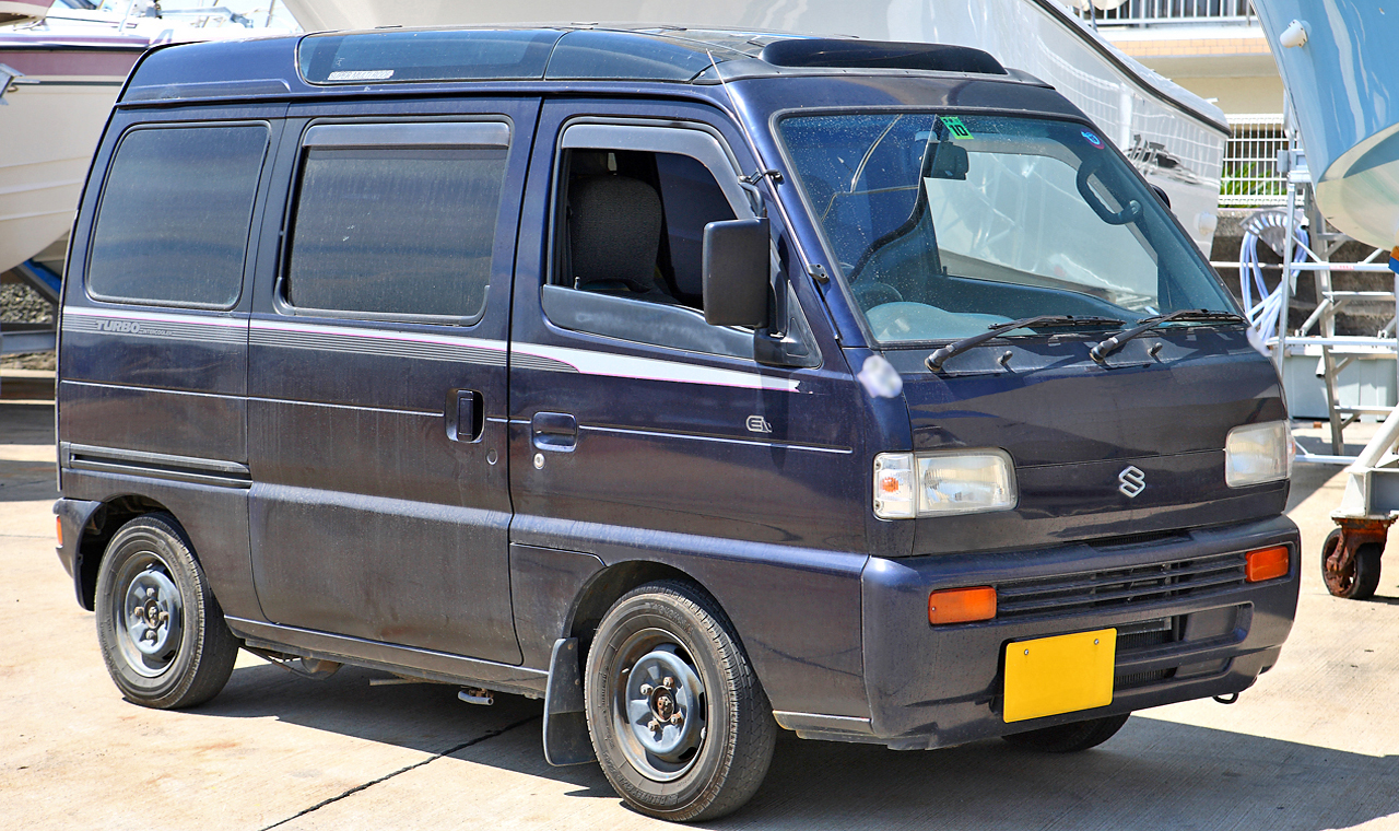 Third generation Suzuki Every, a 1992 660 Turbo RZ Super Multi Roof (V-DE51V).